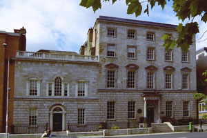 Newman House, St. Stephens Green, Dublin